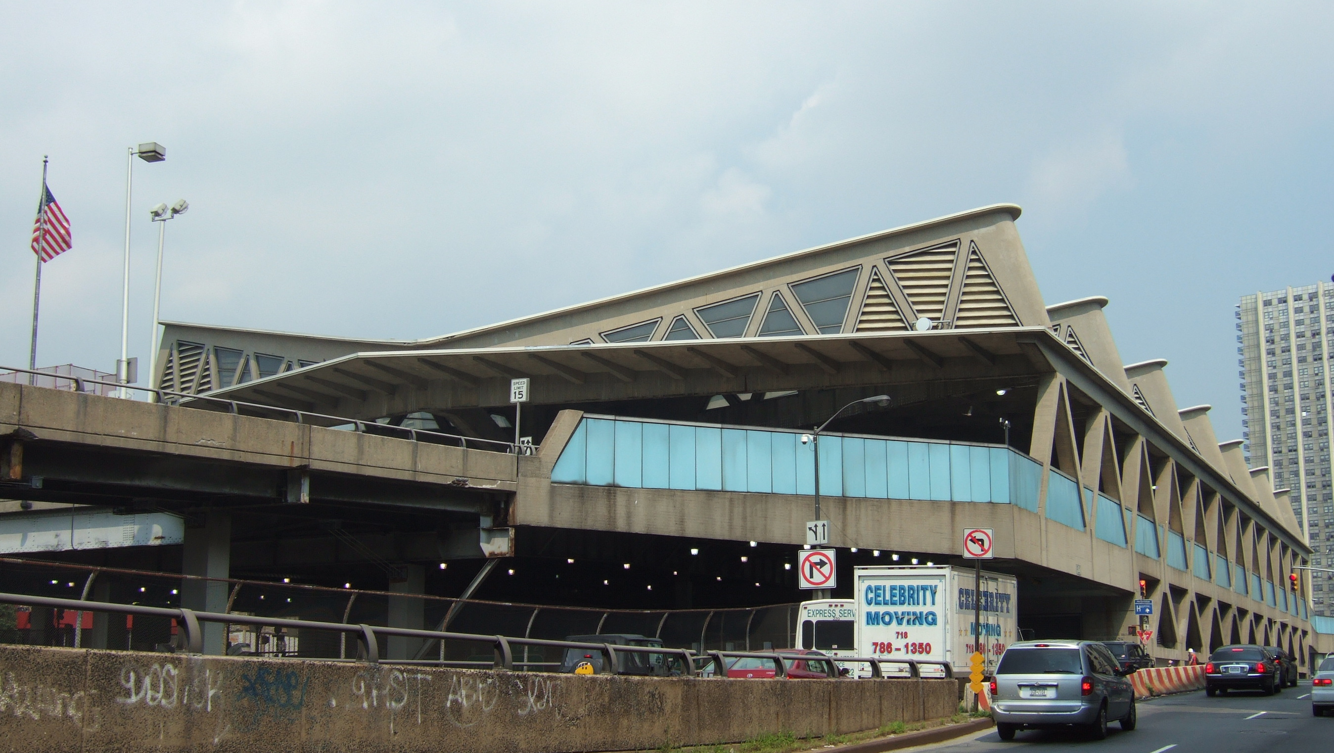 George Washington Bridge Bus Terminal from the western approach from the George Washington Bridge. The complex includes the 175th Street station of the IND Eighth Avenue Line of the New York City Subway.